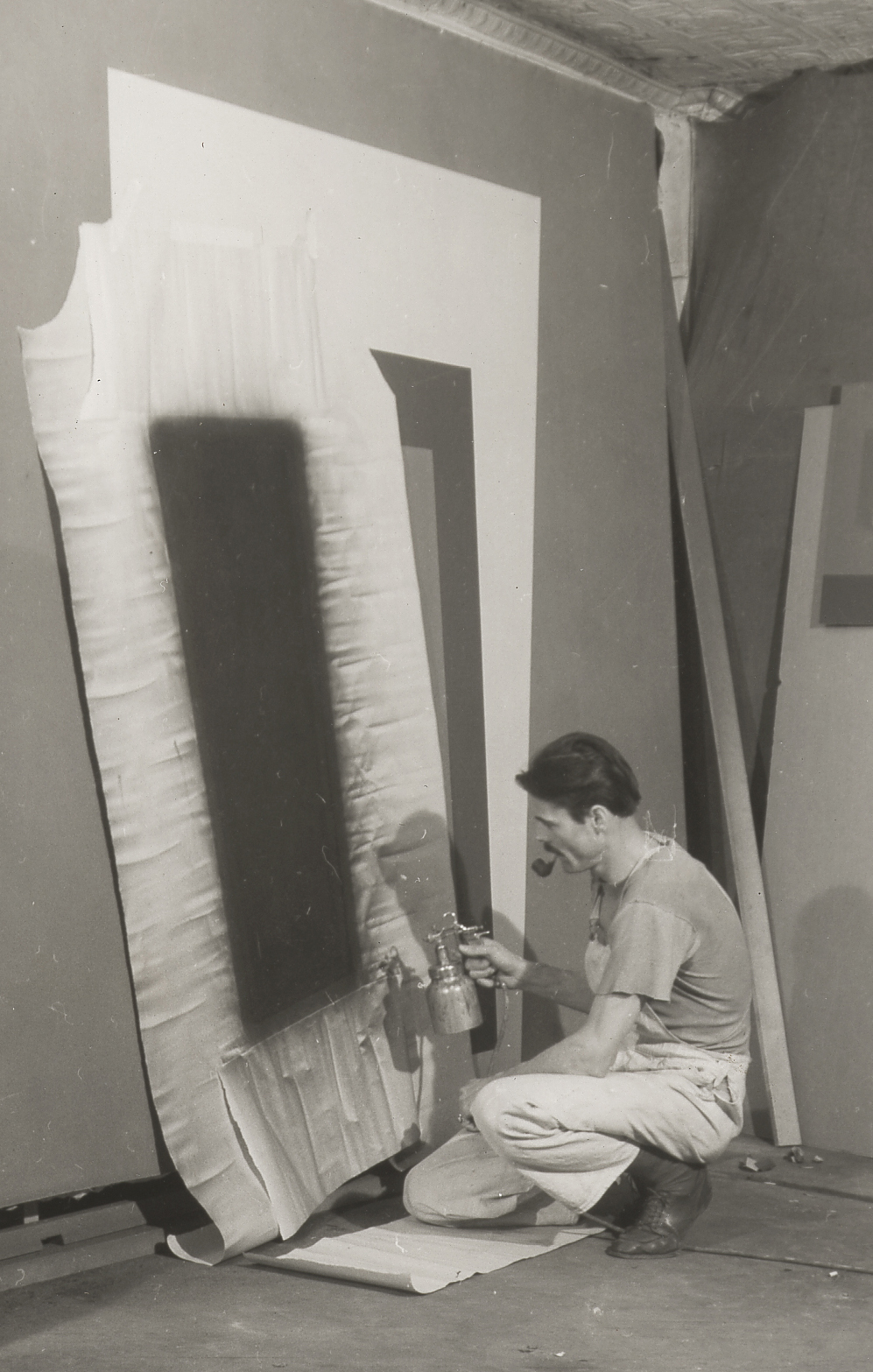 A cropped version featuring Balcomb Greene, spray painting and smoking a pipe. Identification on verso (handwritten and stamped): Federal Art Project W.P.A.; Photographic Division; 110 King Street; New York City Balcomb Greene; Location: 13 W. 17 St., N.Y.; Date: 2/17/39; Negative No.: 35-63-D-24; Photographer: Robbins.